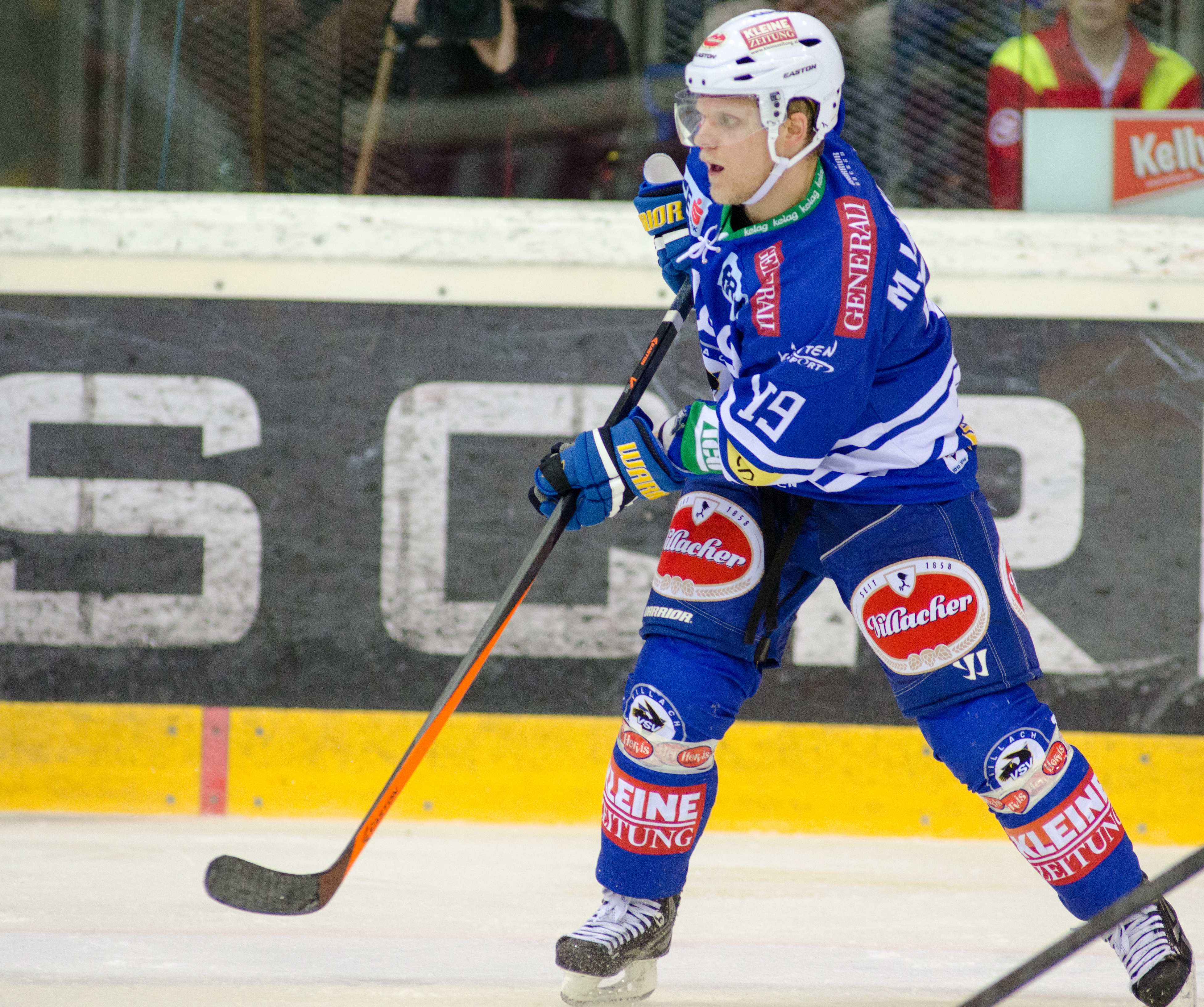 14.03.2014,Stadthalle Villach,Villach, AUT,Play Off Viertelfinale, EC VSV vs. UPC Vienna Capitals, im Bild ///, stewo Pictures © 2014, PhotoCredit: stewo/ Stephan Woldron